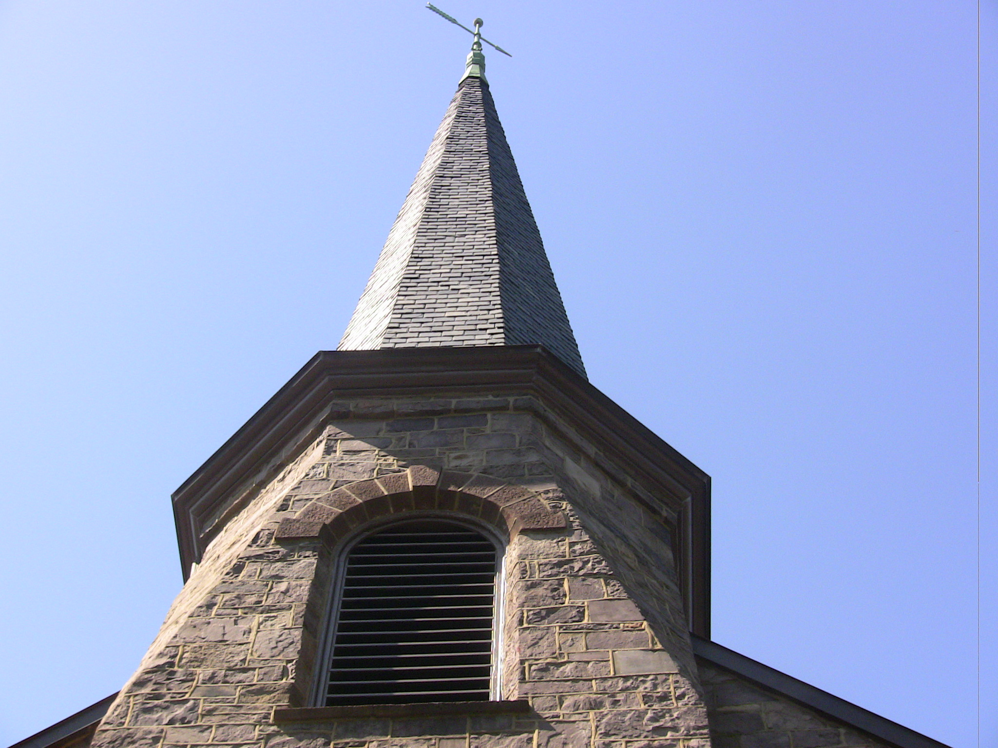 Pennington United Methodist Church